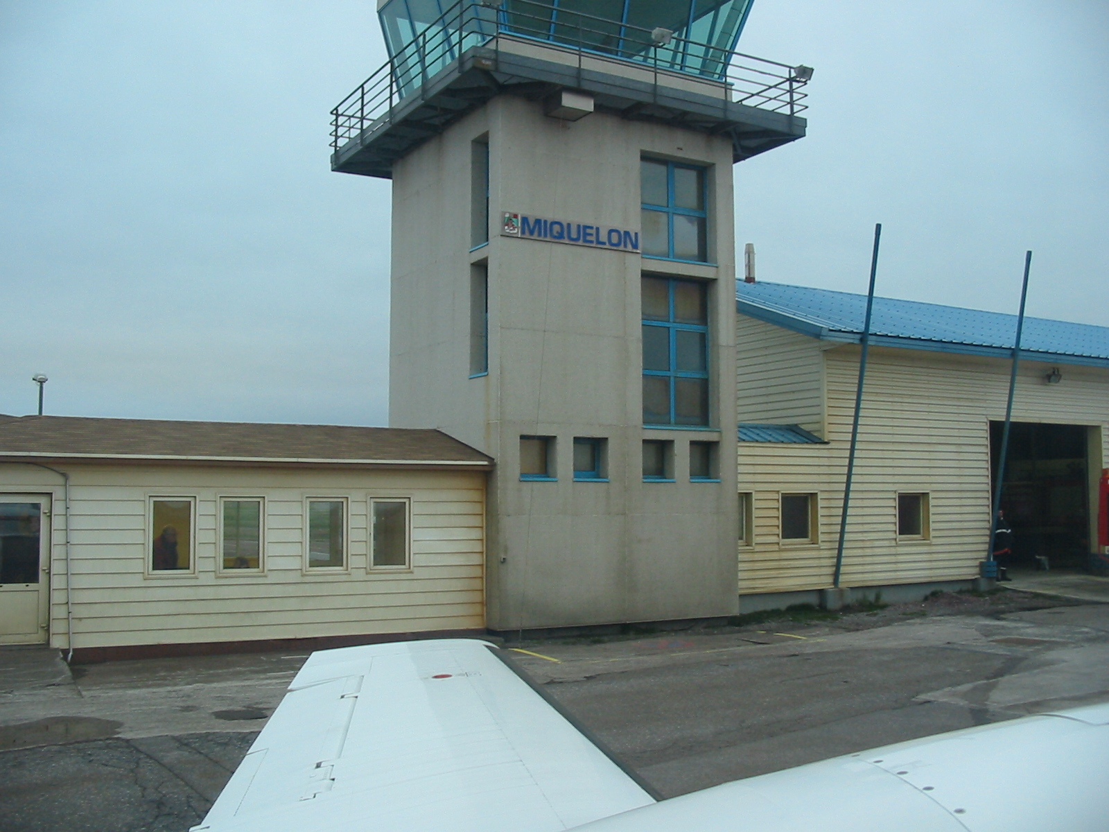 Landing at the Miquelon Airport May 15, 2007. From my holiday pics.